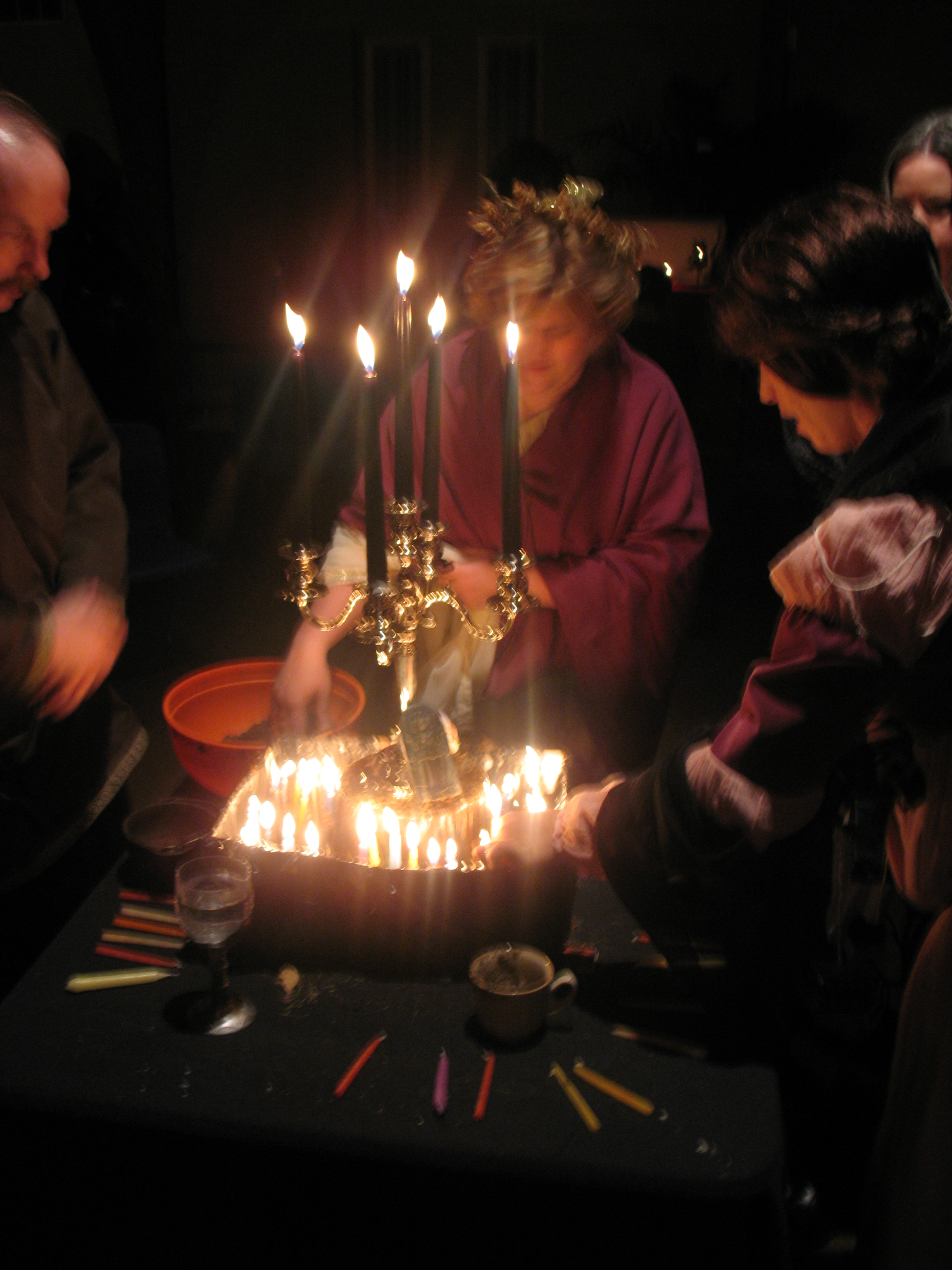 Lighting candles to our ancenstors at the altar and planting them in the grave dirt.